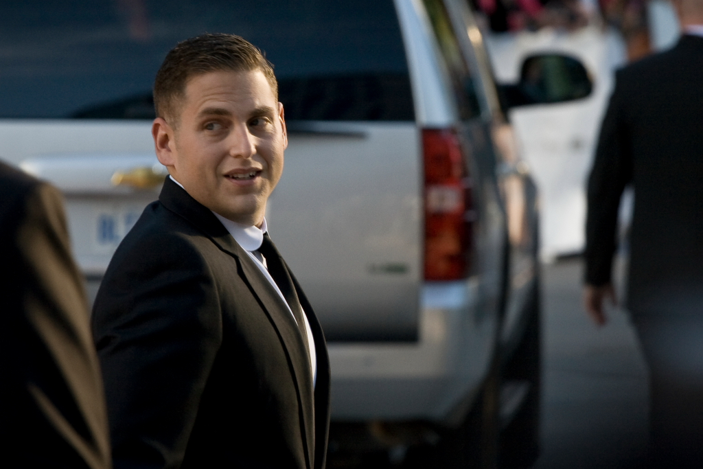 At the premiere of "Moneyball", directed by Bennett Miller, during the Toronto International Film Festival, 2011.